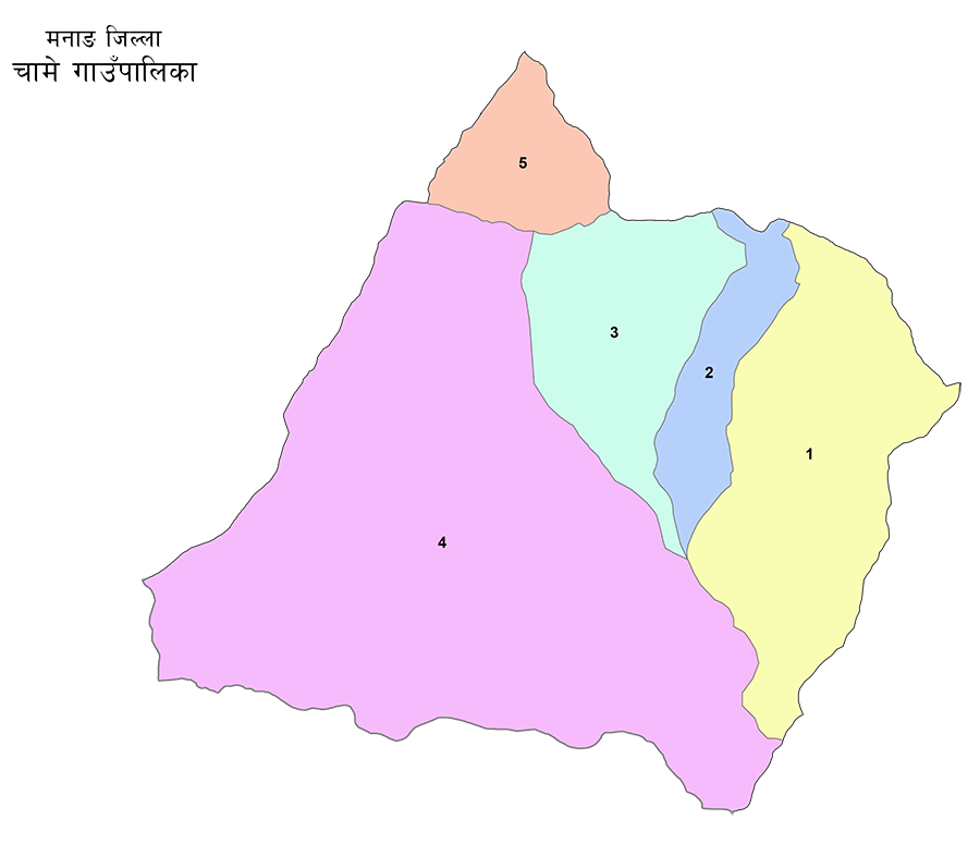 Chame नेपाली: चामे गाउँपालिकाको वडा विभाजन